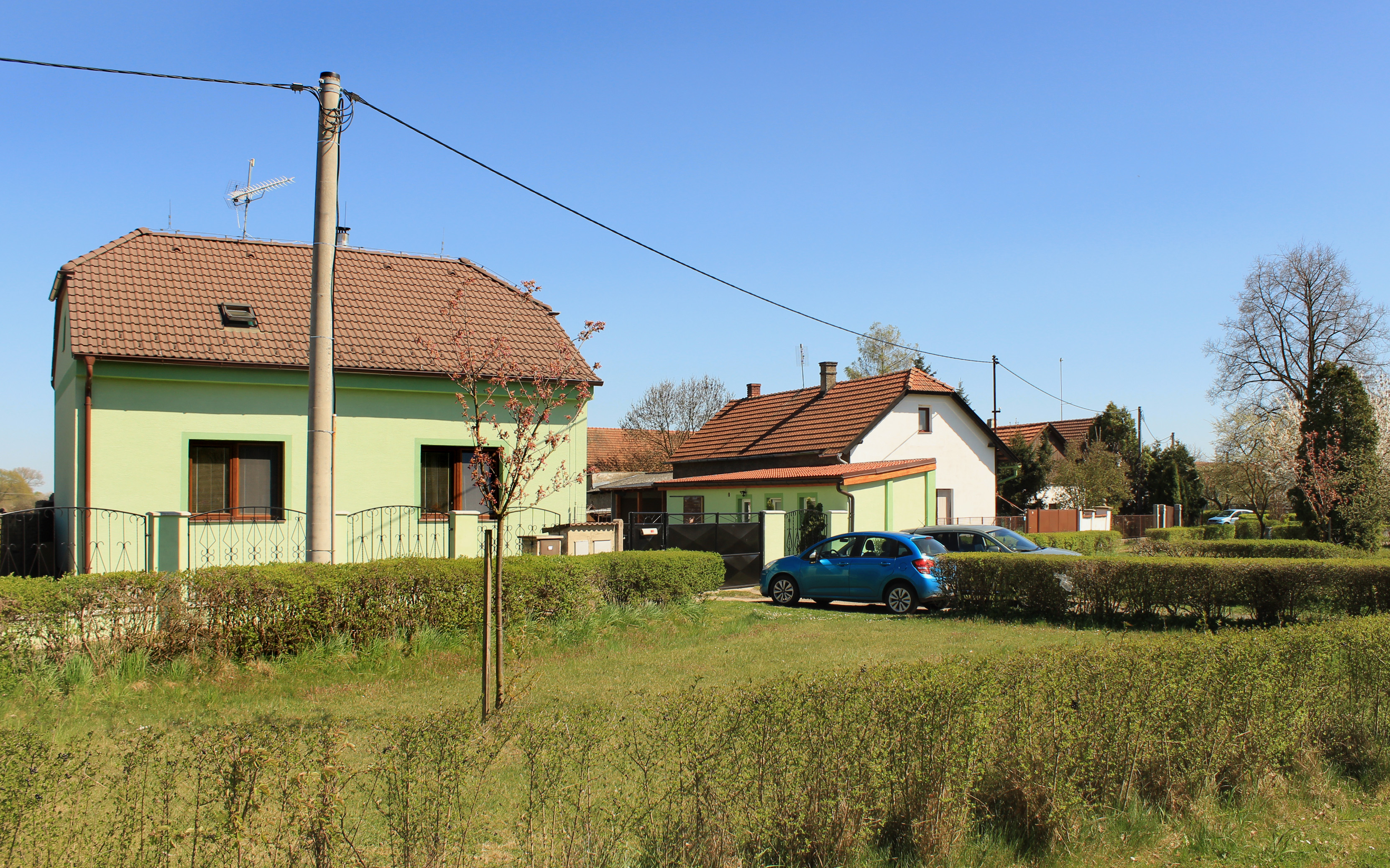 Common in Písty, Czech Republic.